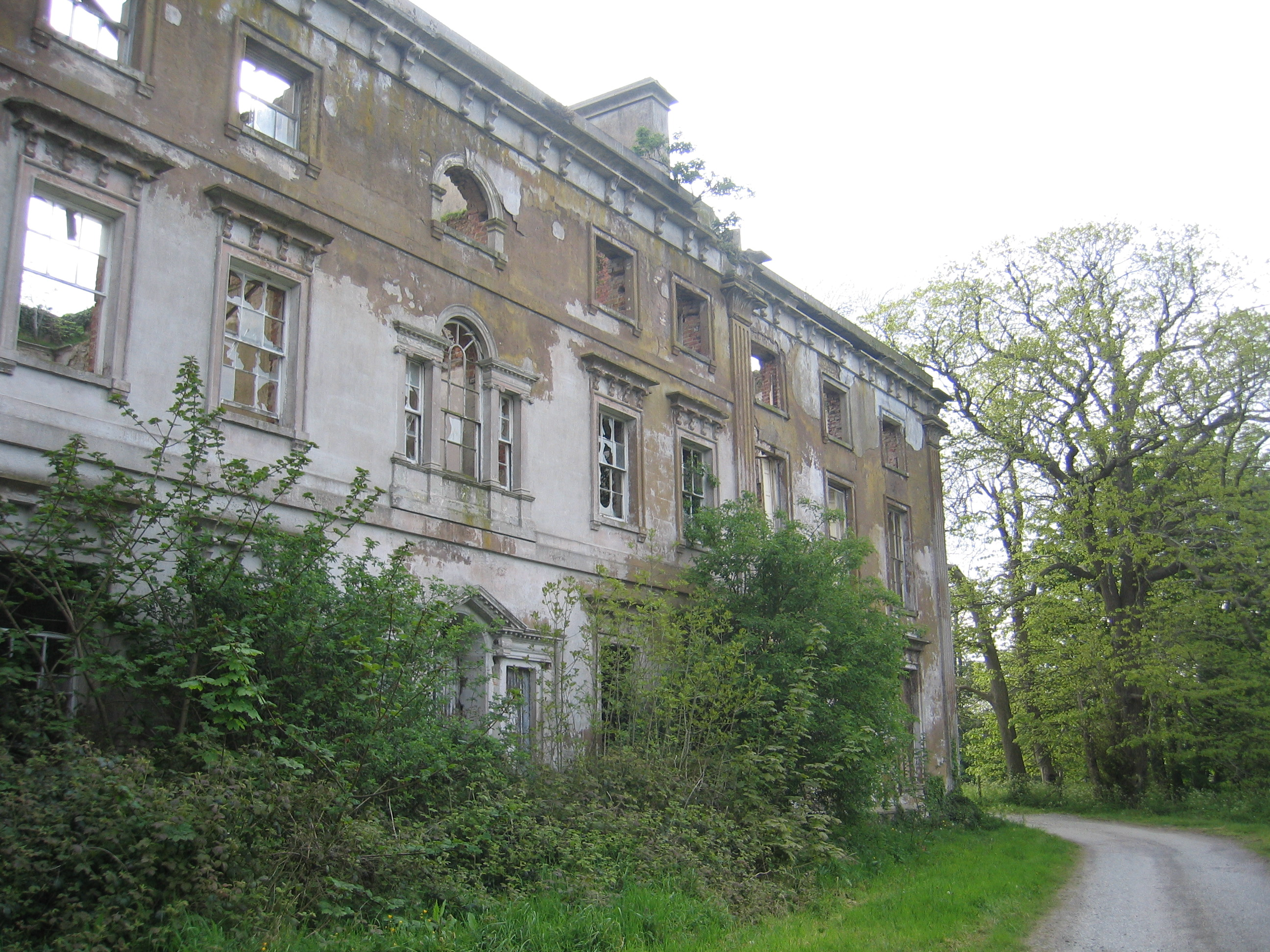 Long View of Mount Panther